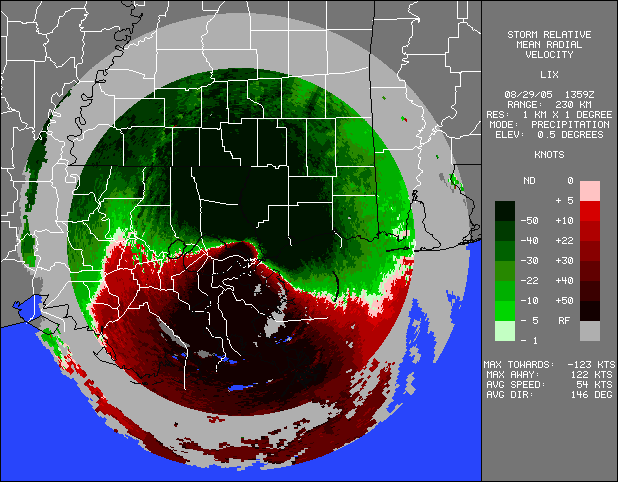 A Weather radar Doppler velocity image of Hurricane Katrina near landfall on August 29, 2005. Dark green areas are strong winds blowing towards the radar; dark red areas show strong winds blowing away. The maximum speeds are noted on the right side.